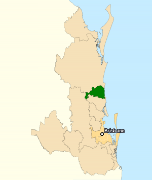 This image incorporates data that is: © Commonwealth of Australia (Australian Electoral Commission) 2009 Division of Fairfax 2010